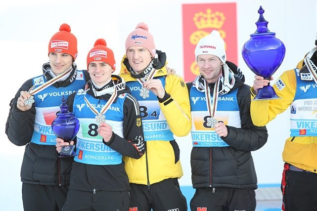 Team Germany during team competition of FIS Ski-Flying World Championships 2012